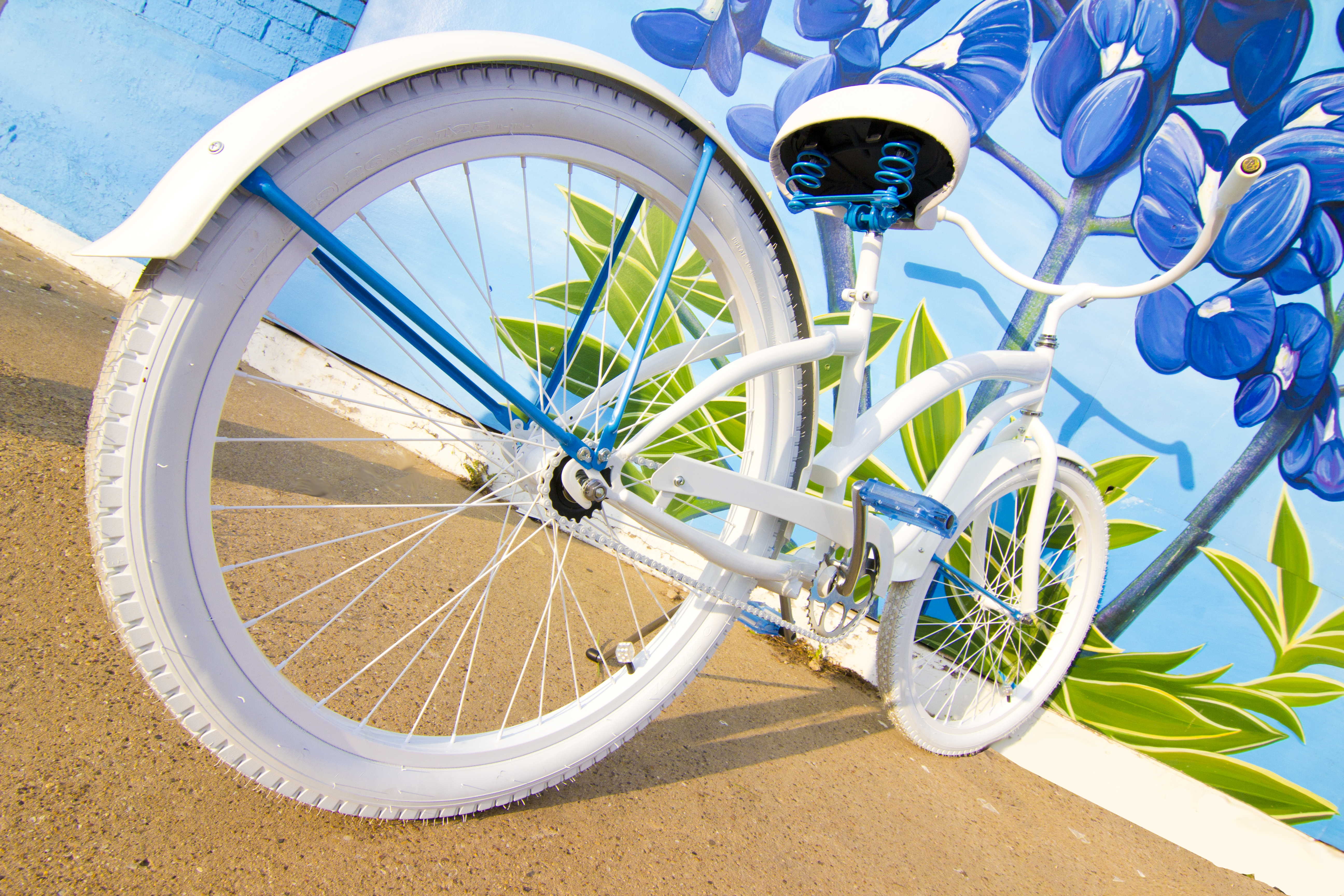 This is a custom luxury fashion bicycle by Villy Custom from